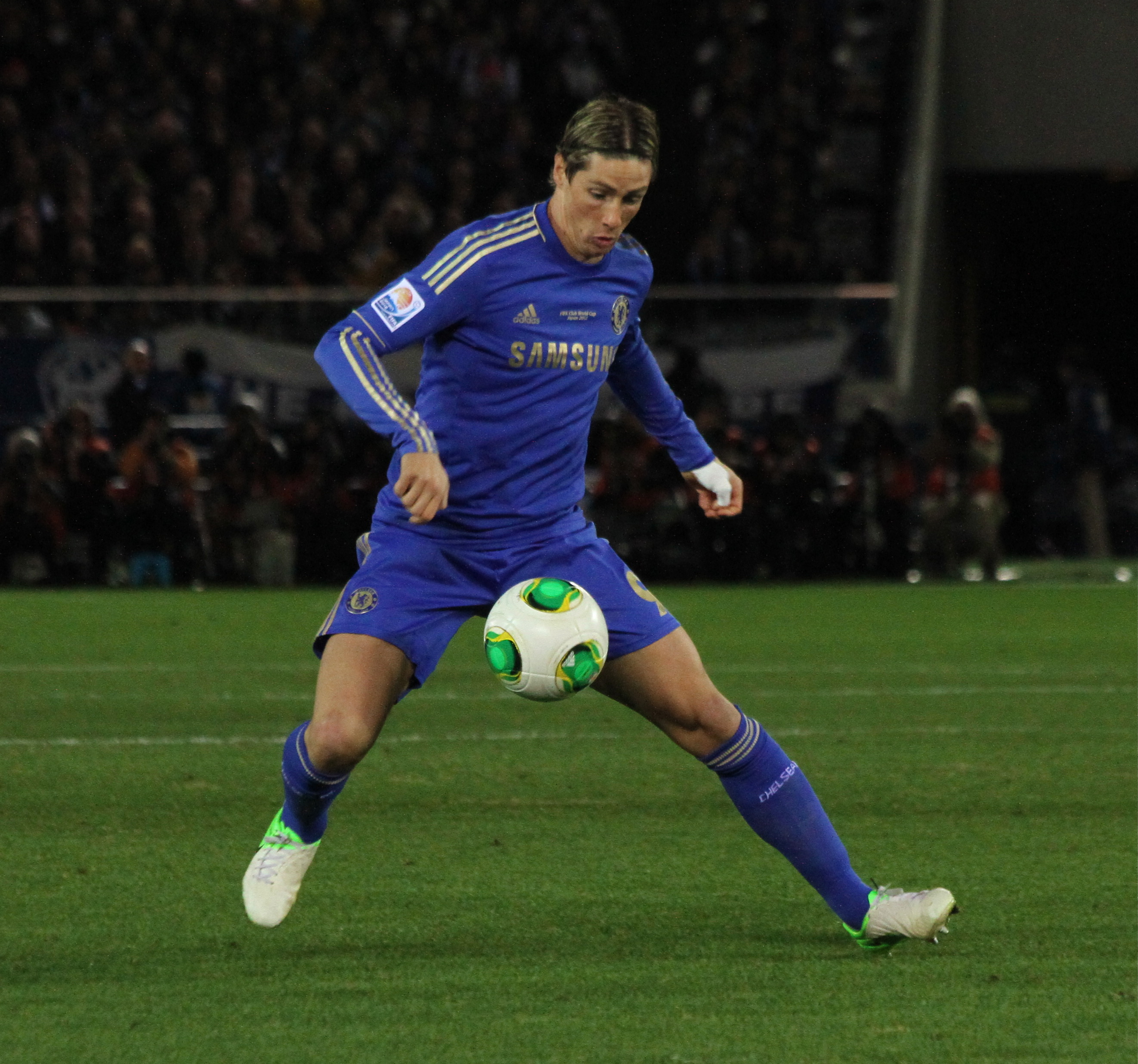 Fernando Torres of Chelsea at the 2012 FIFA Club World Cup.